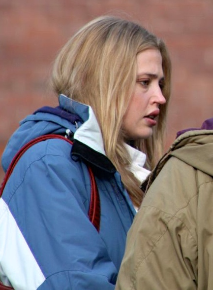 Estella Warren shooting Blue Seduction